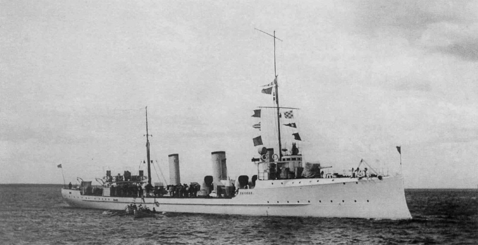 Imperial Russian destroyer Украйна (Ukrayna).